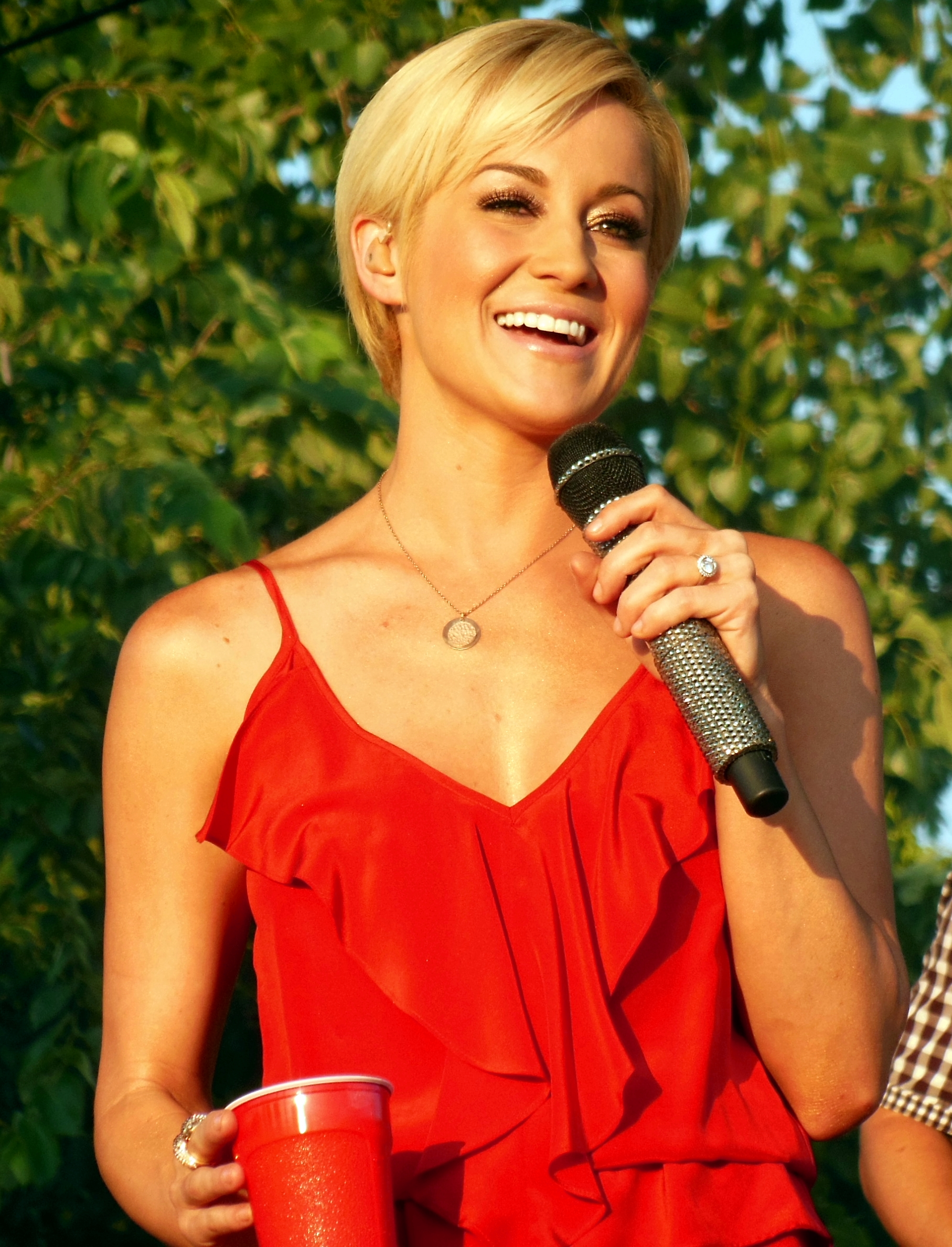 Kellie Pickler performs at a 2013 tour stop after winning Dancing With The Stars